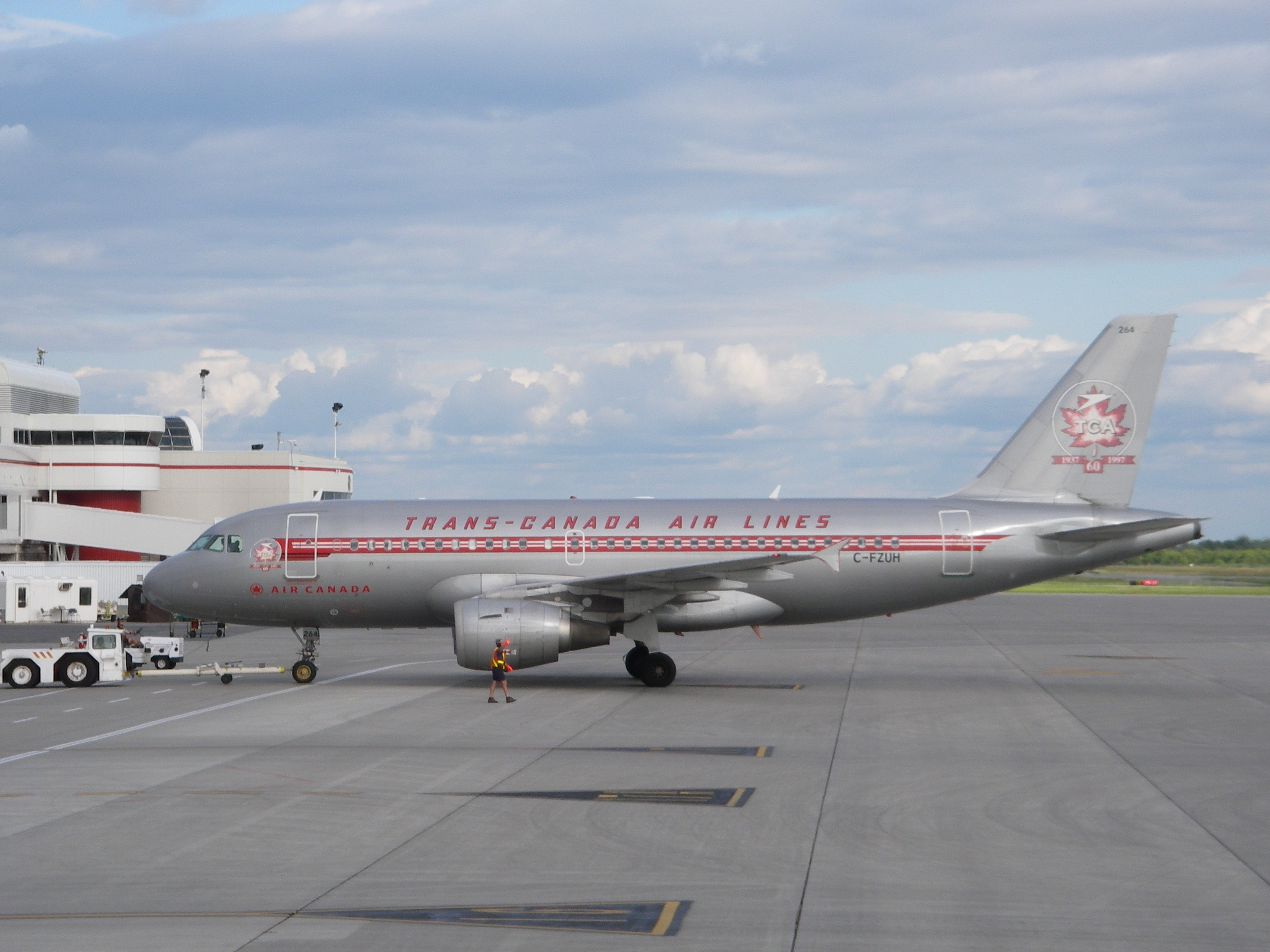 This aircraft was painted in TCA colours for the 60th anniversary of the Airline, in 1997